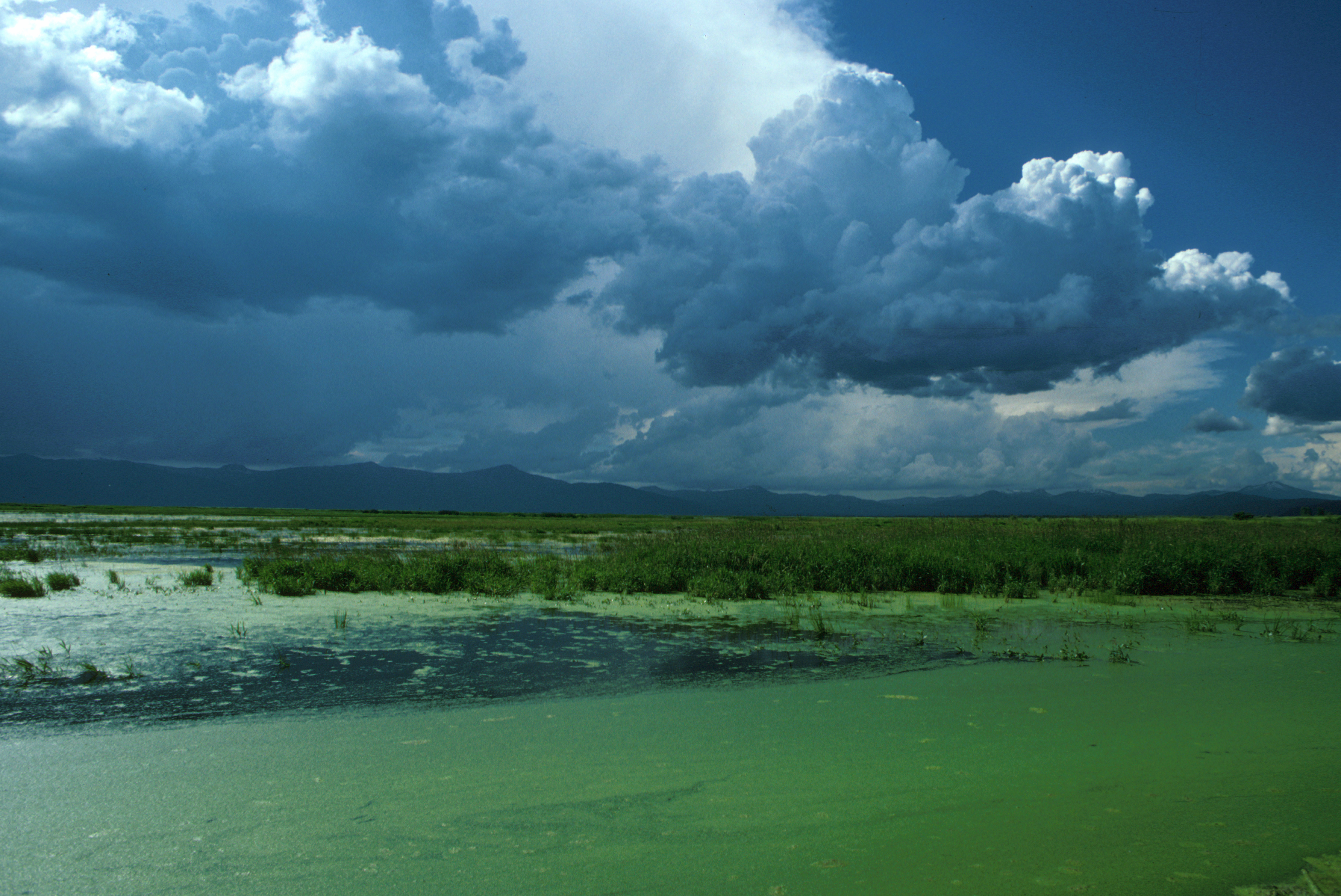 The landscape of the Klamath Basin, the watershed of the Klamath River in southern Oregon and northern California